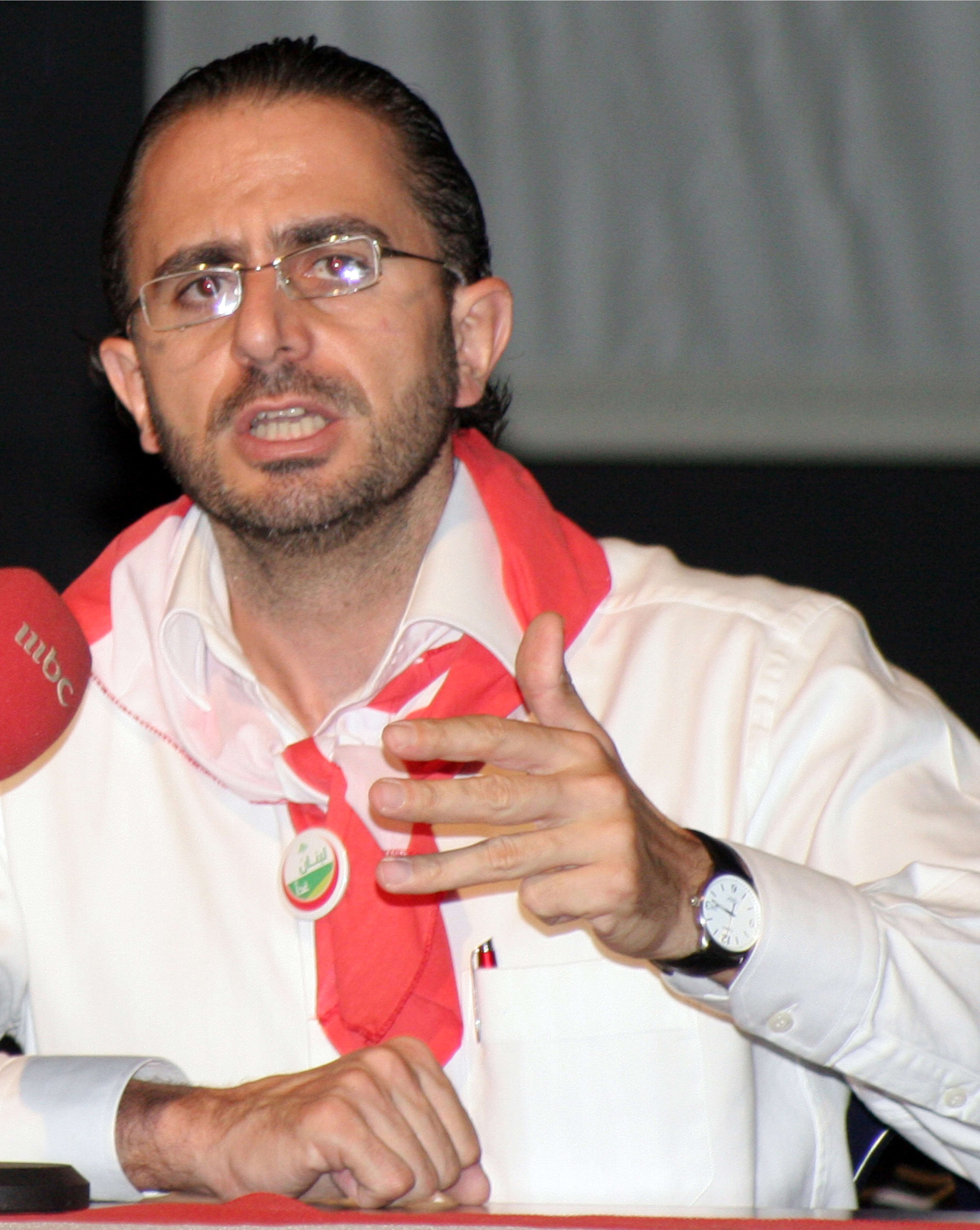 Rami Ollaik